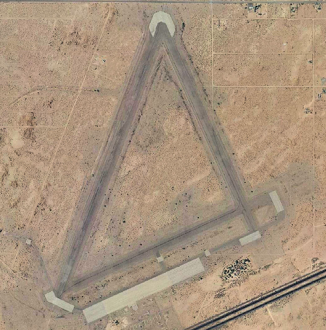 USGS digital orthophoto of Dateland Air Force Auxiliary Field in Arizona